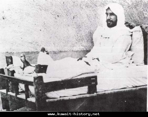 major ok kuwait army in 1928.